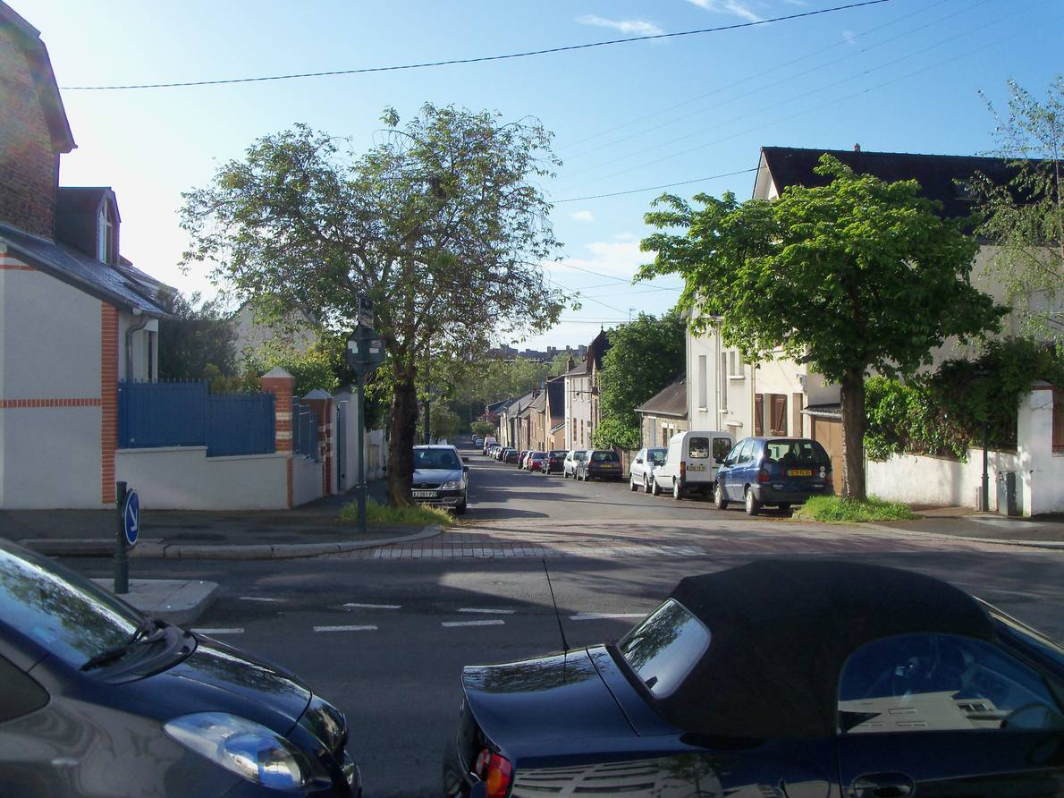 Rue des Frères Blin, street in Rennes, Brittany, France